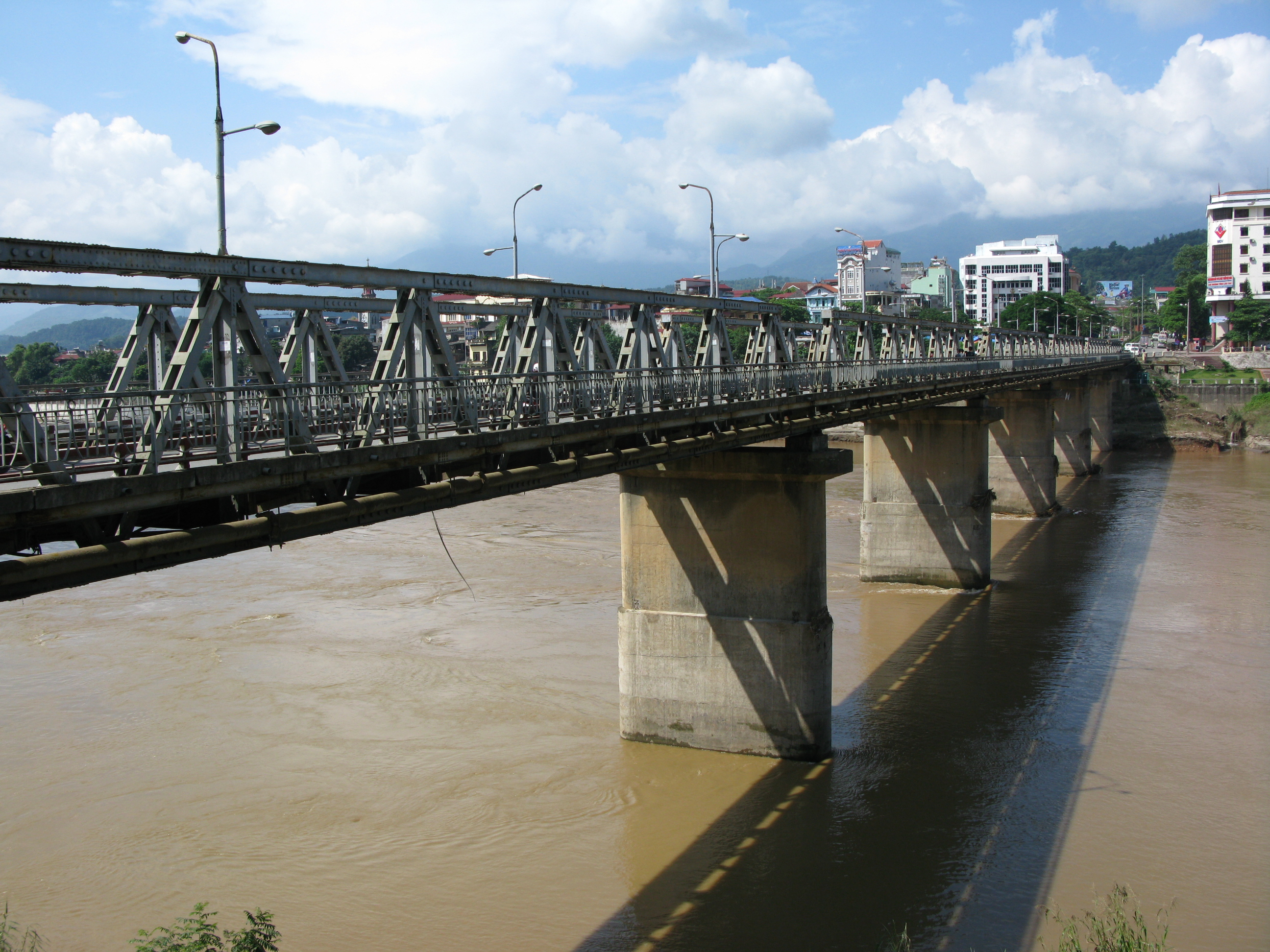 Cốc Lếu Bridge, Lào Cai City, Việt Nam